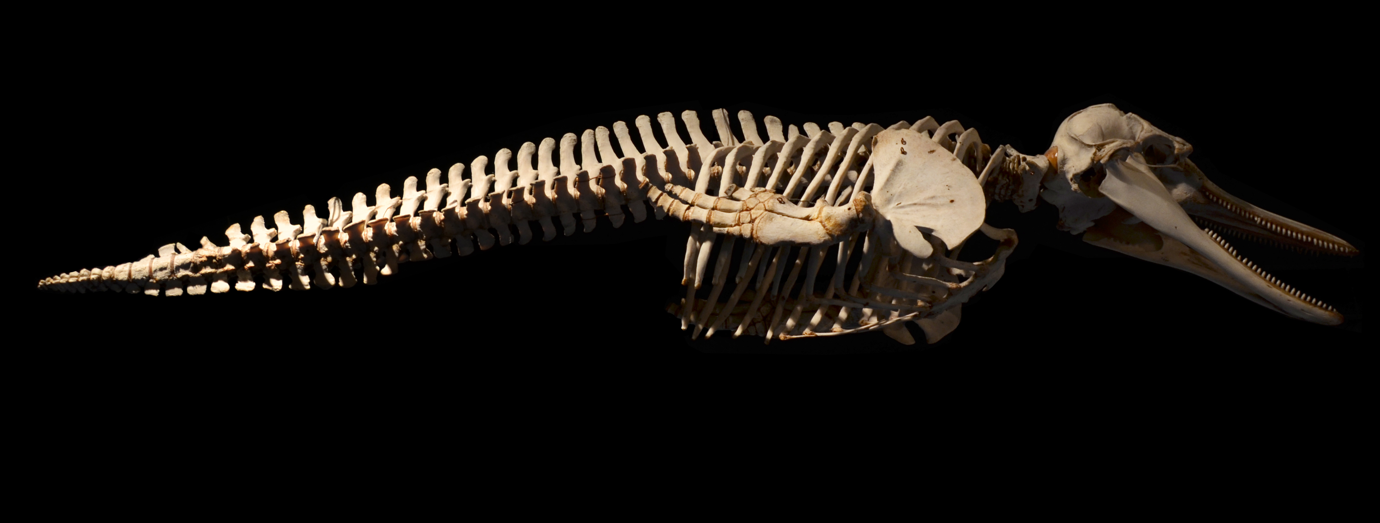 Skeleton of Sotalia fluviatilis, Royal Belgian Institute of Natural Sciences, Brussels.